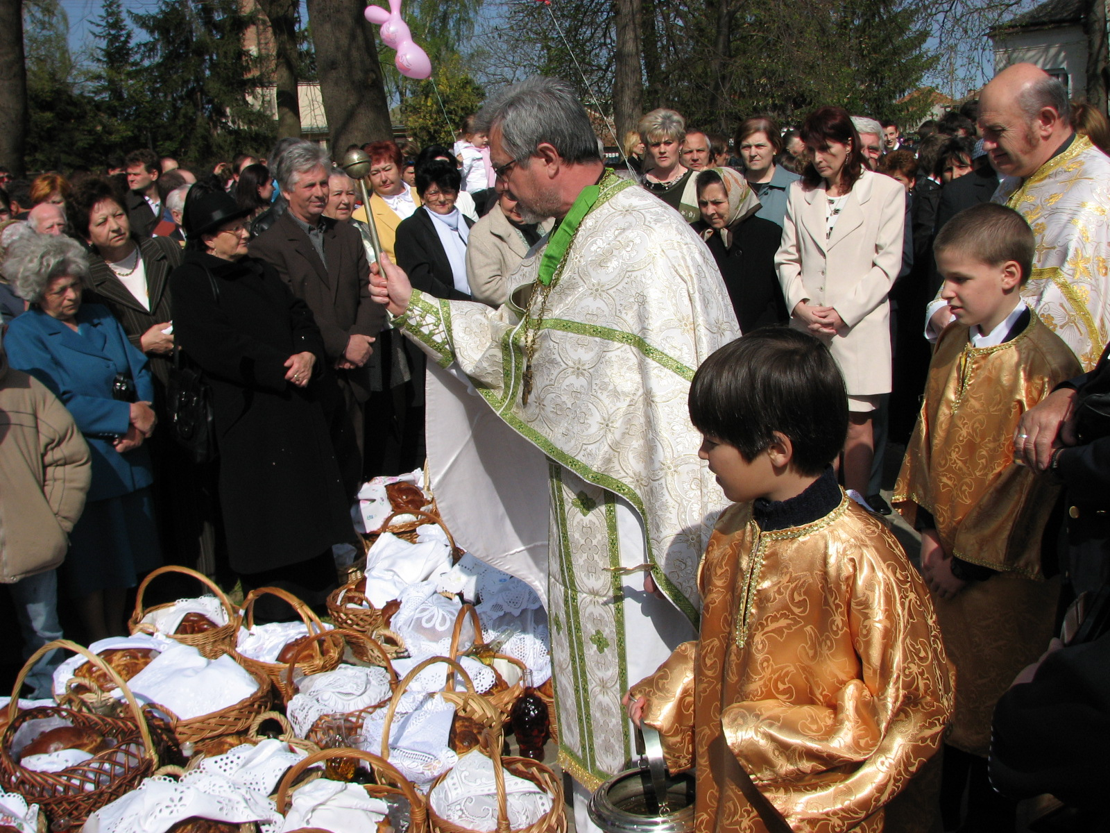 The picture depicts the traditional Easter feast of consecration of the pászka - which is a special, sweeter bread prepared by strict rules and eaten only in Easter. The picture was taken in the garden of the Greek Catholic Cathedral of Hajdúdorog, Hungary.